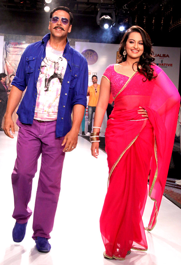 Akshay Kumar, Sonakshi Sinha promote 'Rowdy Rathore' at the Rajasthan Fashion Week.